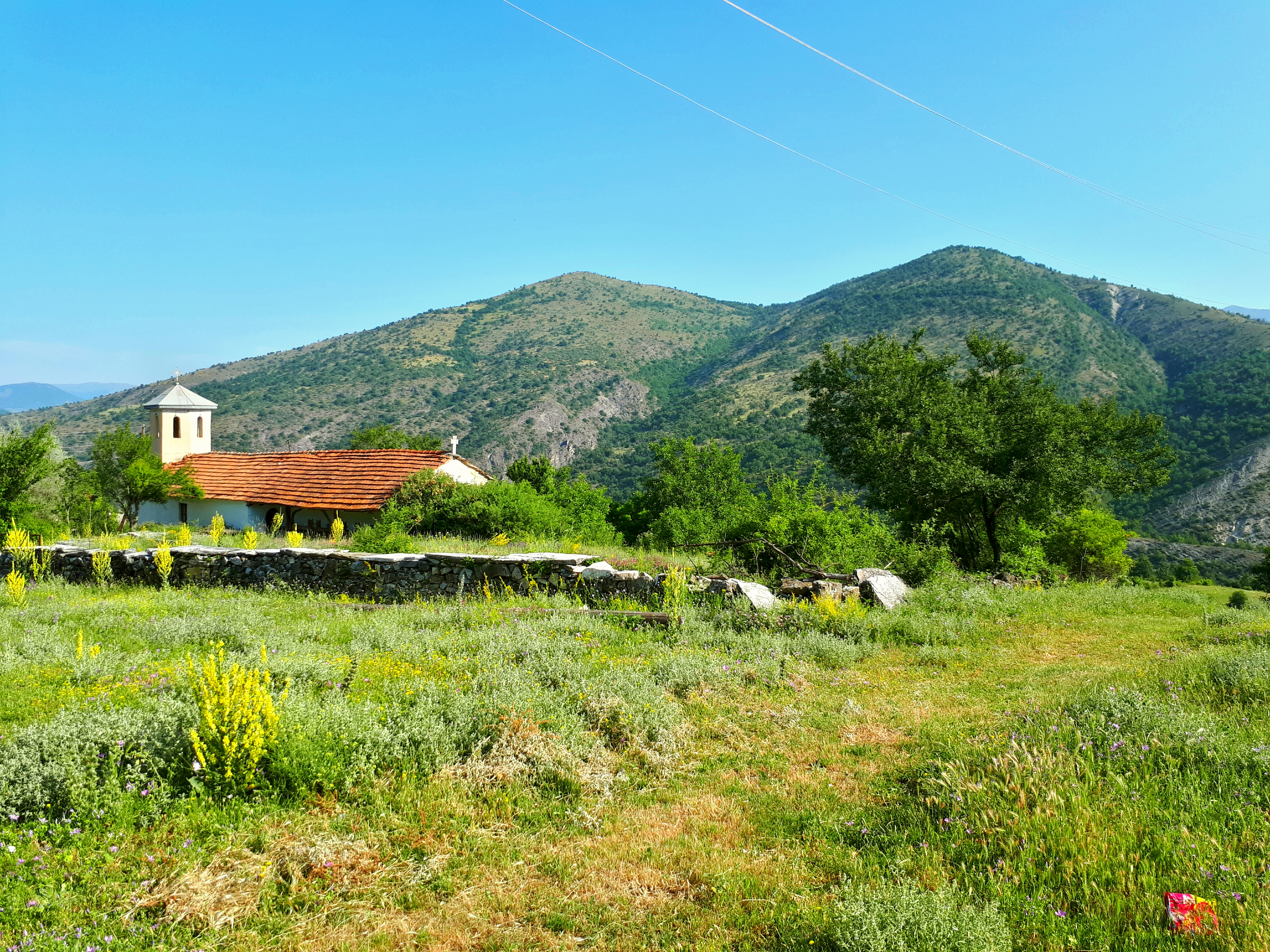 Church in the village Crešnevo